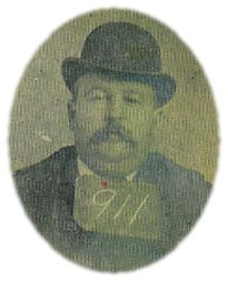 J H Devereux Jr, ca 1902: South Carolina Inter-State and West Indian Exposition Pass Book Photographs taken for the 1901-02 World's Fair that took place in Charleston.